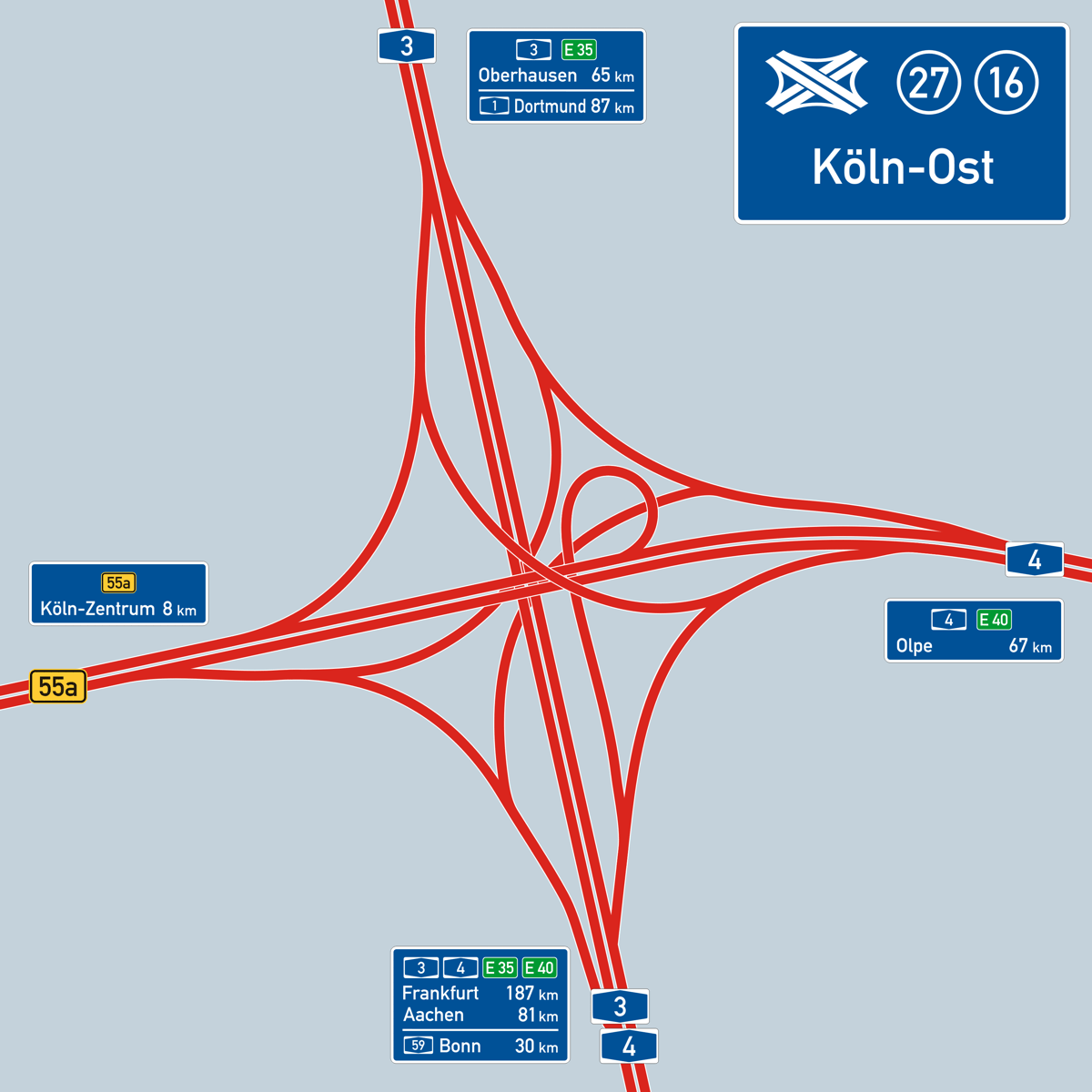 Interchange Cologne East